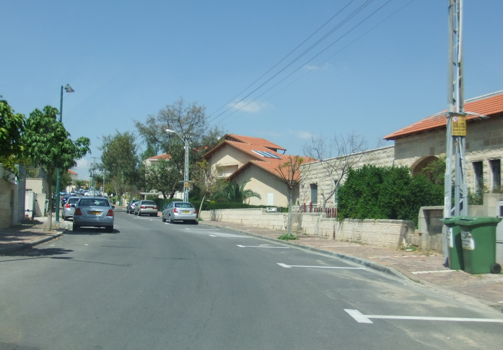 Street in Hashmonaim